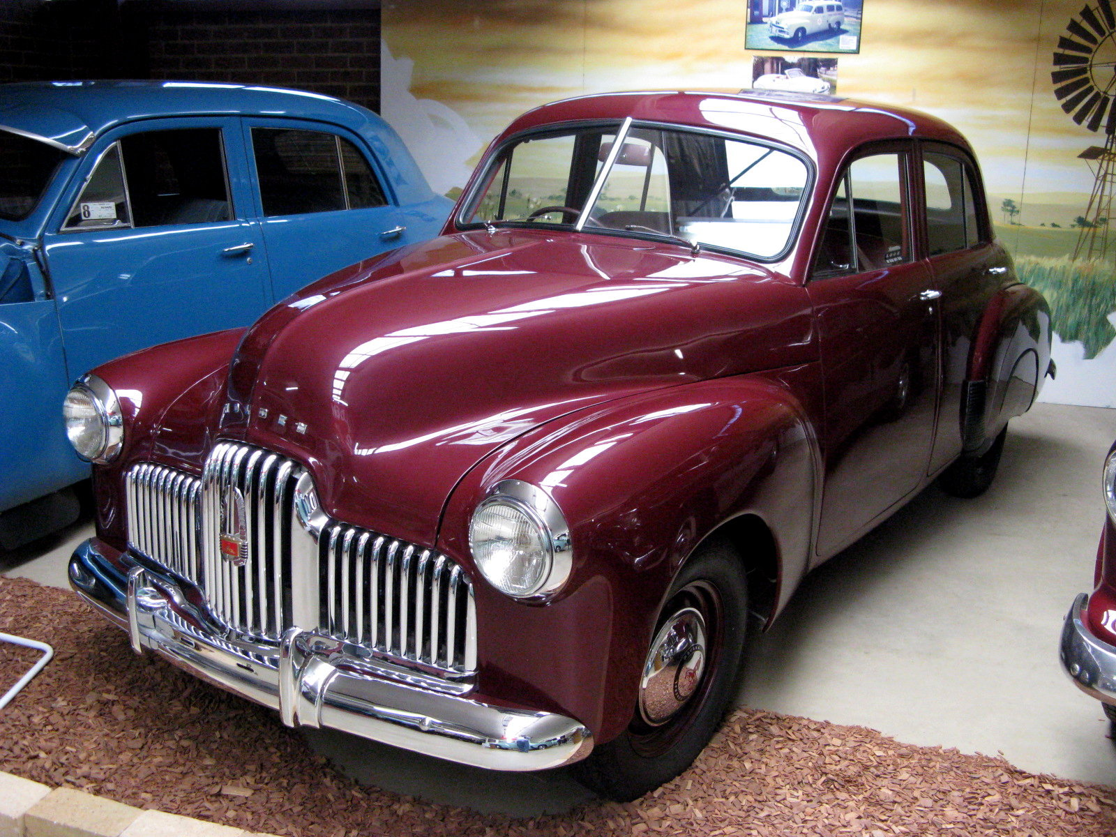 1948 Holden 48-215